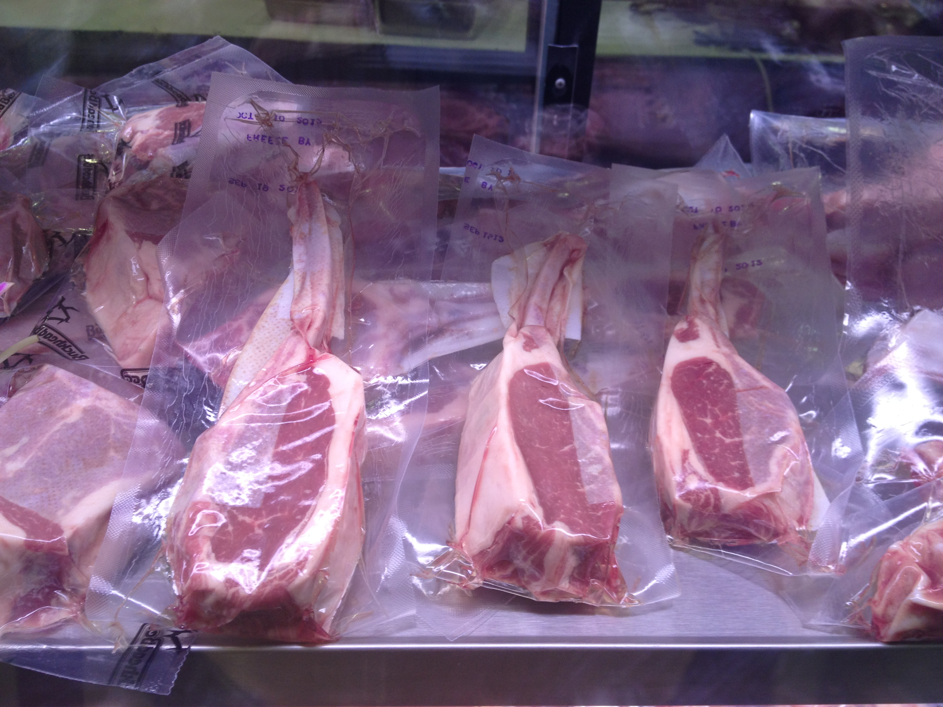 vacuum packaged meats raw on display